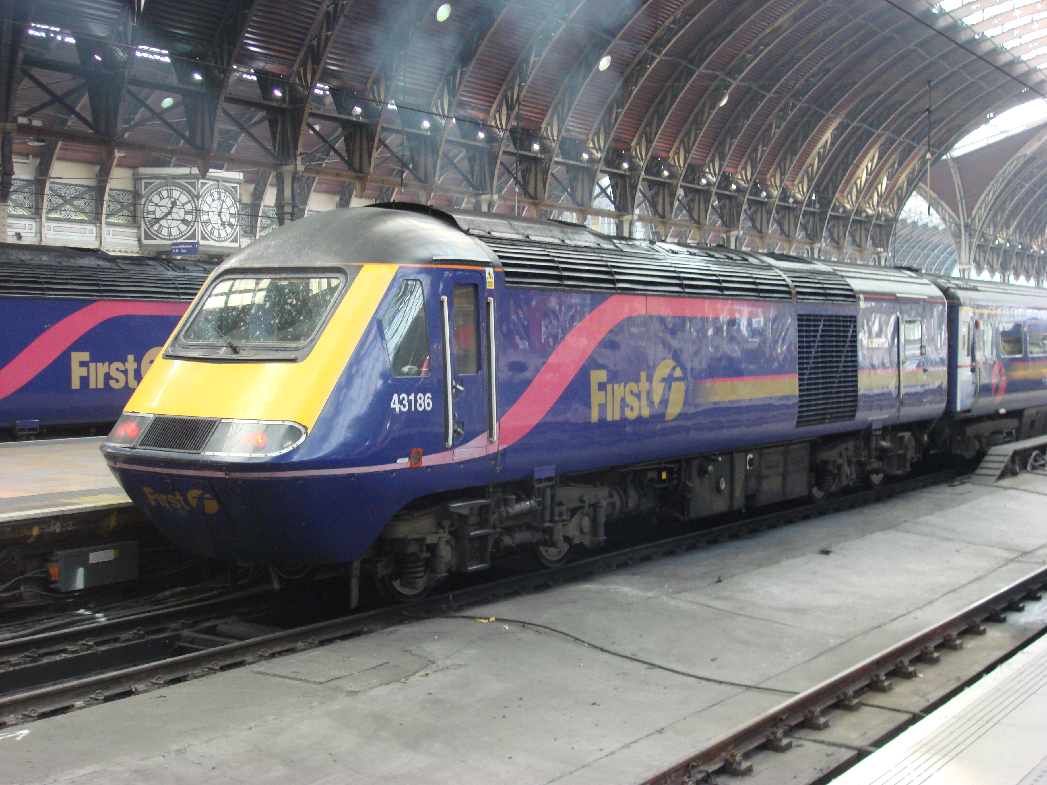 43186 at Paddington terminus